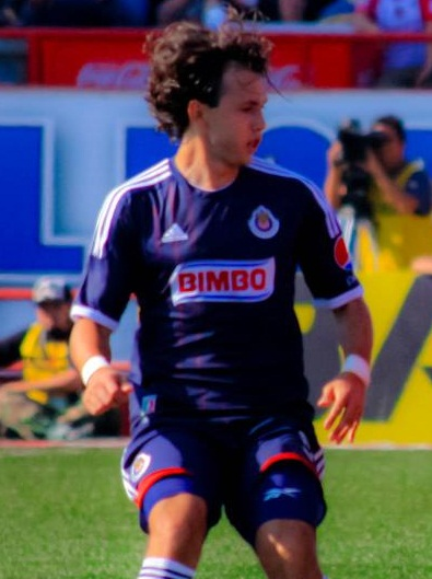 Chivas player Omar Arellano